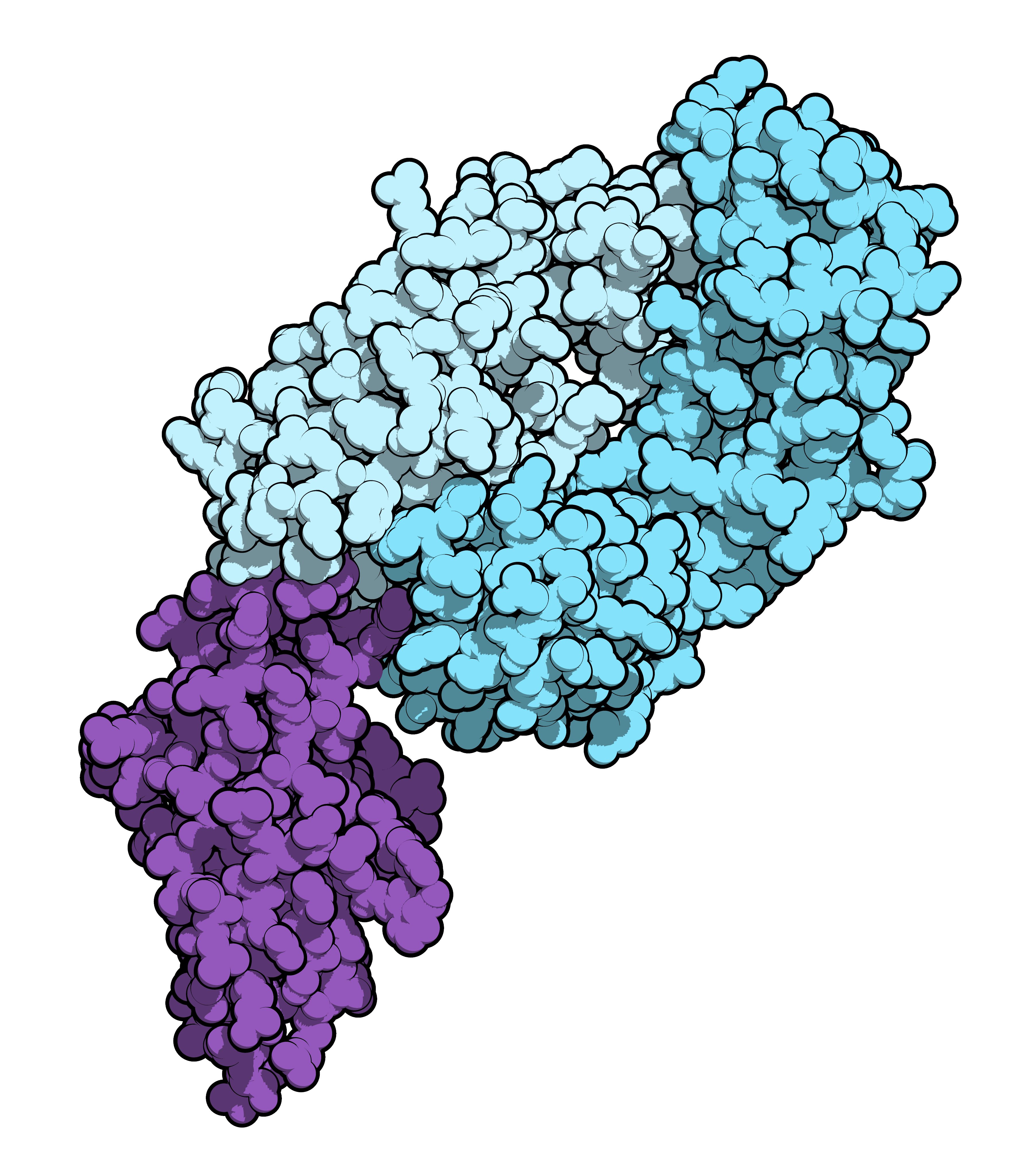 Space-filling model of the Fab fragment of the monoclonal antibody nivolumab bound to its target, the extracellular domain of programmed cell death protein 1 (PD-1).Style made to resemble the Protein Data Bank's "Molecule of the Month" series, illustrated by Dr. David S. Goodsell of the Scripps Research Institute. Created using QuteMol ( Optimized with OptiPNG.